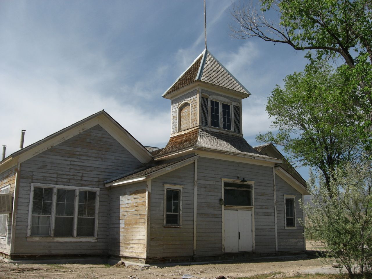 The historic Golconda School, located at the junction of Morrison and 4th Streets in Golconda, Nevada, United States, is listed on the US National Register of Historic Places.